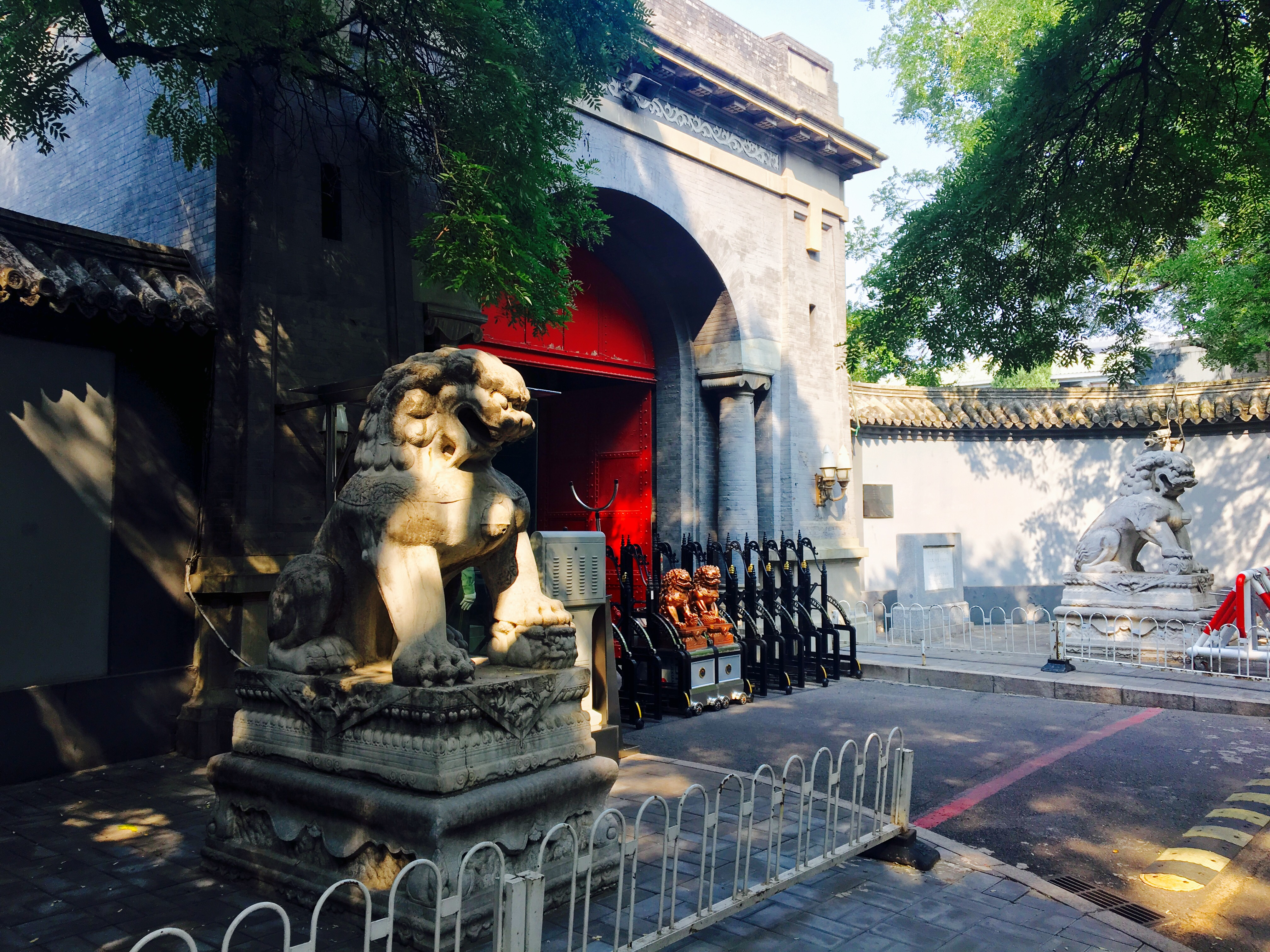 15 Dongjiaomin Alley